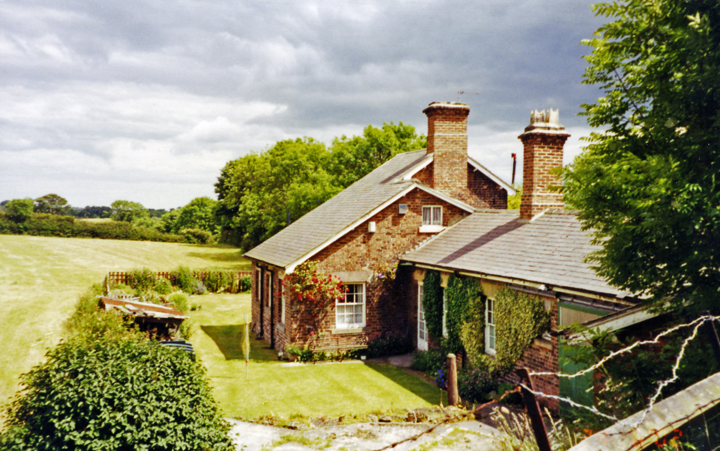 Former Castle Eden station, 2002. View eastward from next to Castle Eden Inn, towards West Hartlepool: ex-NE Ferryhill (also Sunderland via Wellfield) - West Hartlepool line. The station has been very nicely converted to a private house since it was closed on 9/6/52 (to passengers, 1/6/64 to goods).